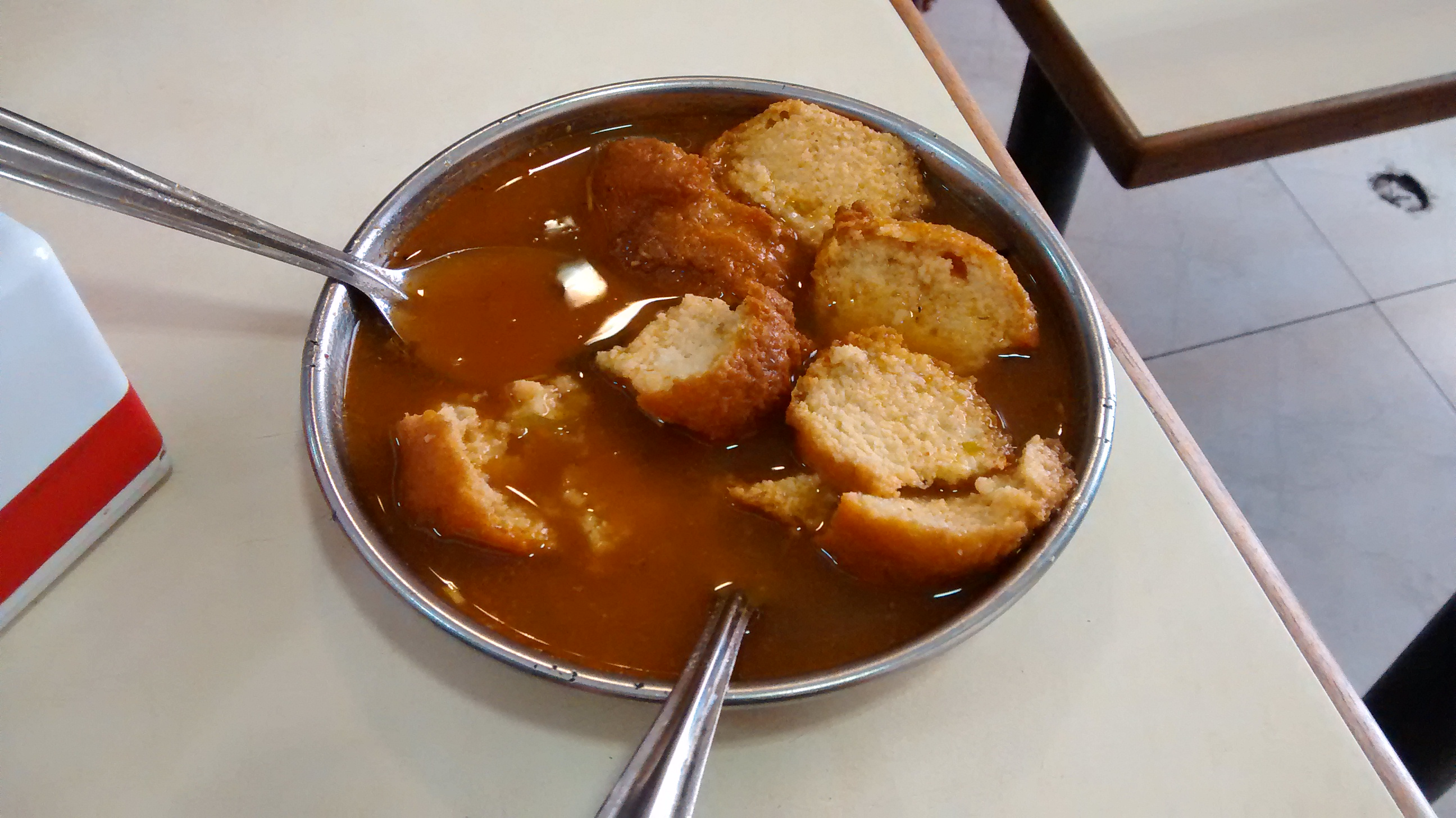 Rasam- wada